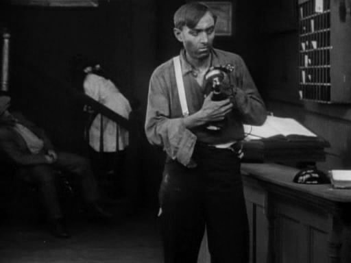 Harry Carey in An Unseen Enemy